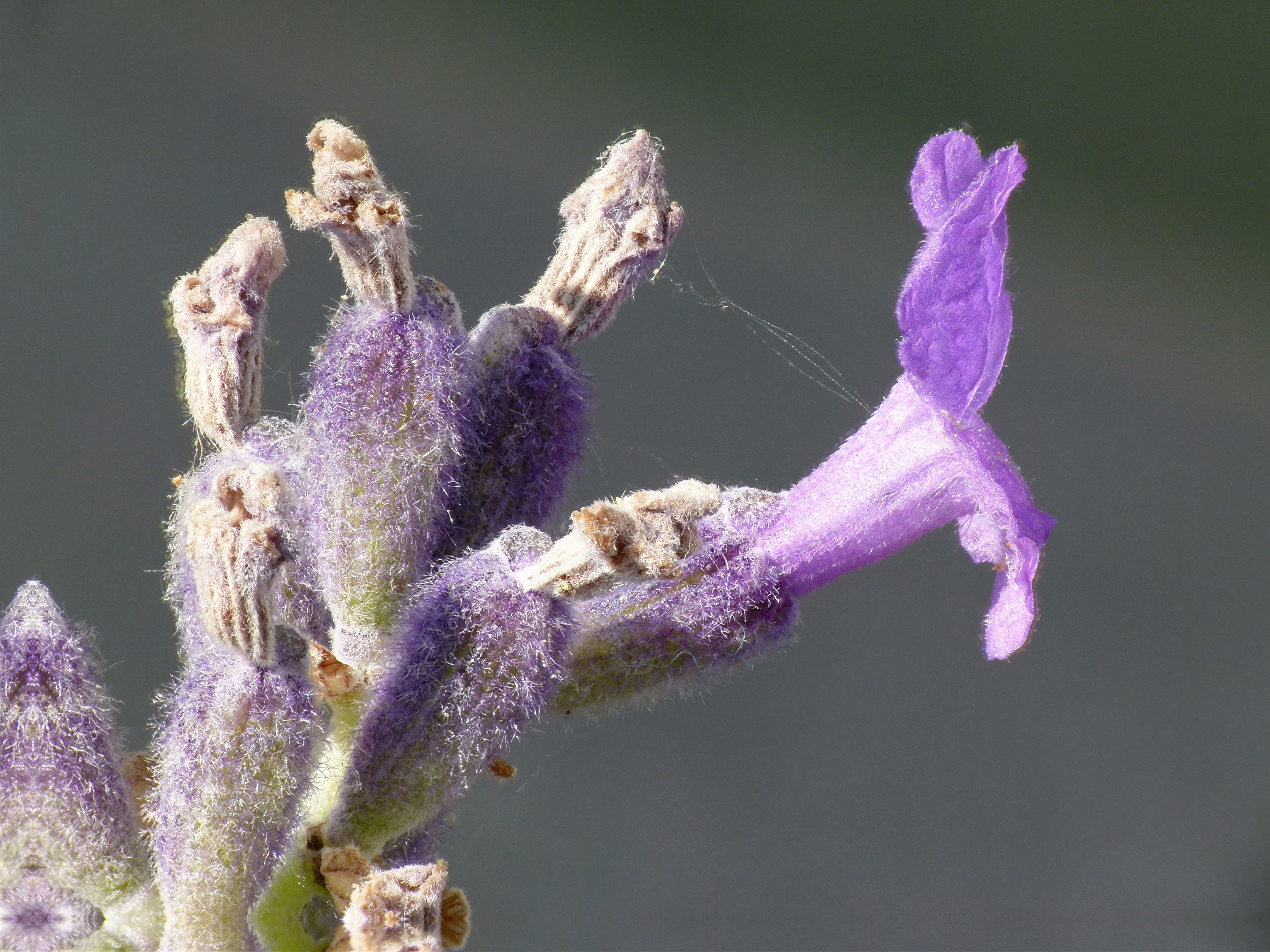 Lavender (Lavendula Angustifolia)